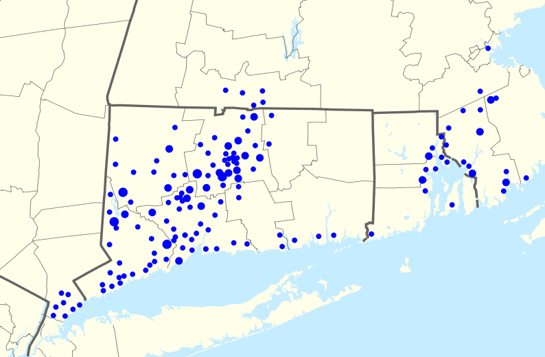 Footprint of Webster Bank. Cities with more than one branch have progressively larger points.